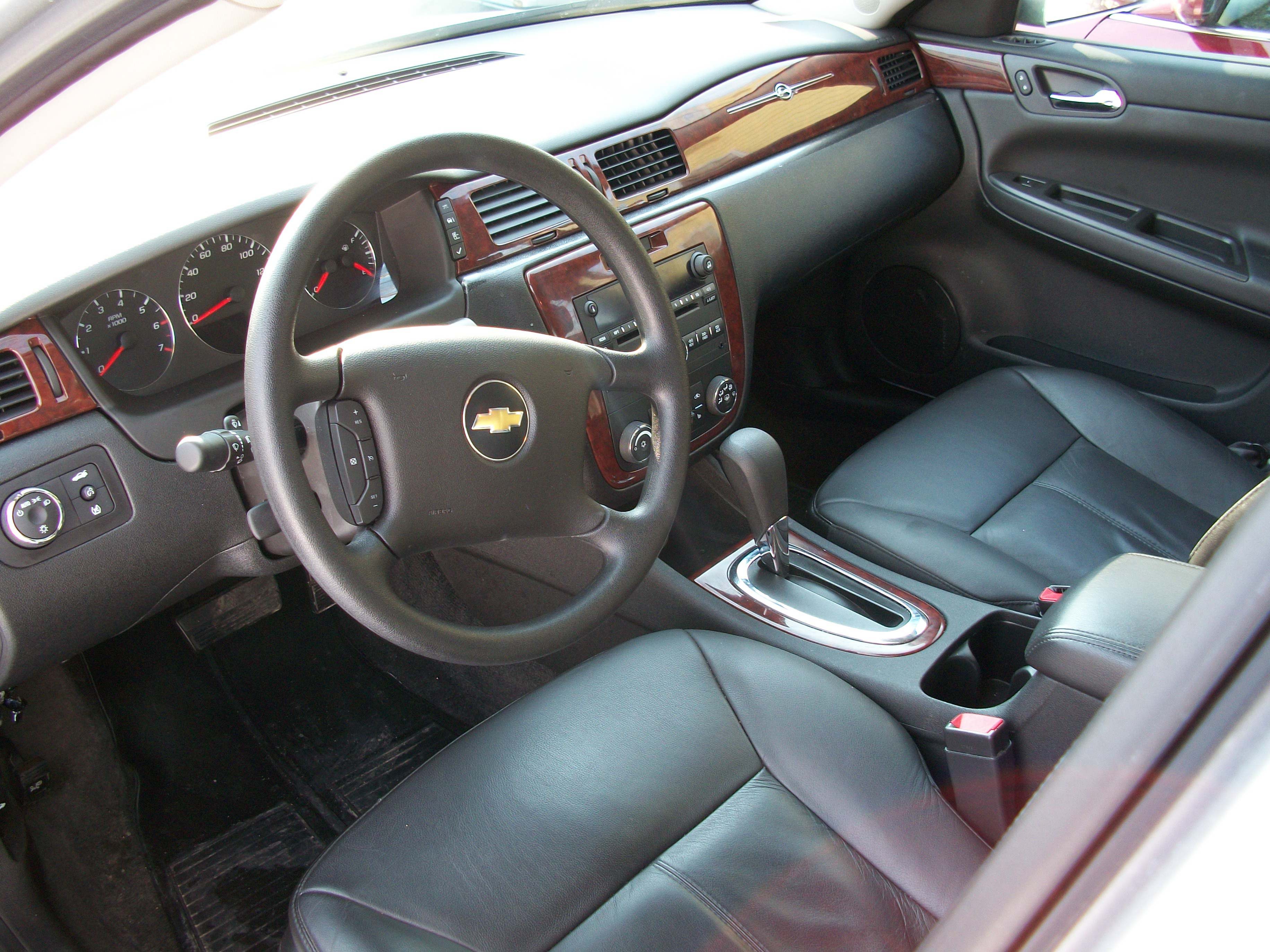 2009 Chevrolet Impala LT interior.